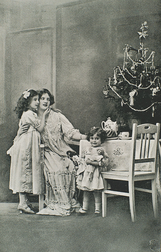 Tittel / Title: Julekort, ca 1917 Motiv / Motif: Postkort / julekort. Dato / Date: ca 1917 Fotograf / Photographer: ukjent / unknown Utgiver / Publisher: Oppi Eier / Owner Institution: Nasjonalbiblioteket / National Library of Norway Lenke / Link: Bildesignatur / Image Number: blds_01214